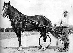 Portrait of Eri-Aaroni.